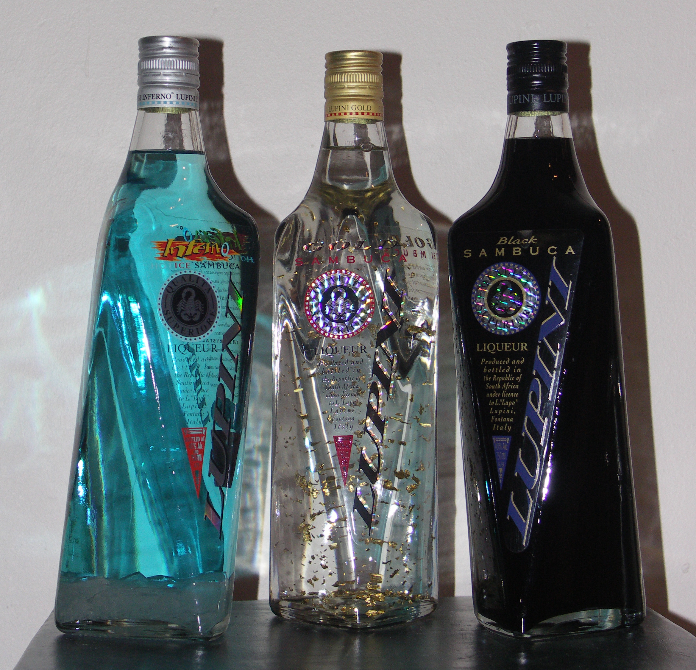 Three bottles of Sambuca. From left to right: Sambuca Inferno Ice, Sambuca Gold, Sambuca Black The flakes drifting in the Sambuca Gold are real gold leaf